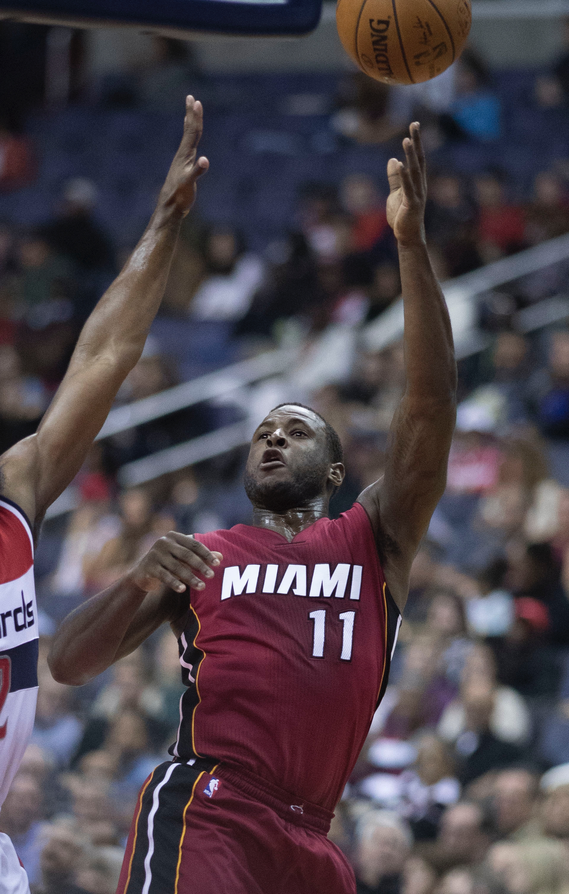 Dion Waiters (Heat at Wizards 11-19-16)